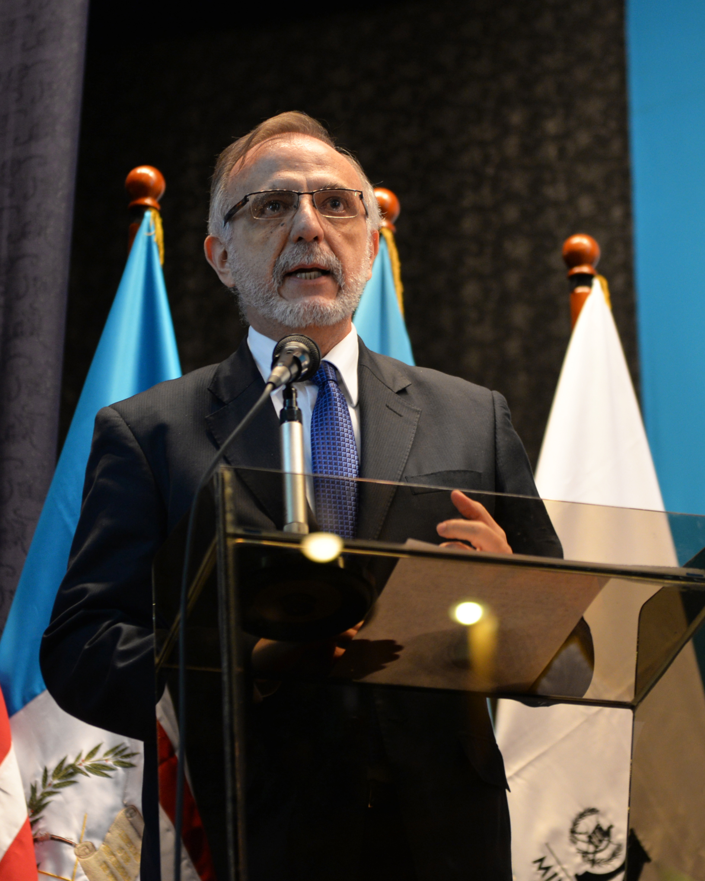 Ivan Velasquez Gomez. Original file was published in Wikimedia Commons in landscape mode. This file has been resized as a portrait.